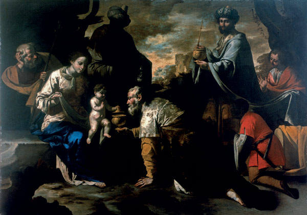 The Adoration of the Magi